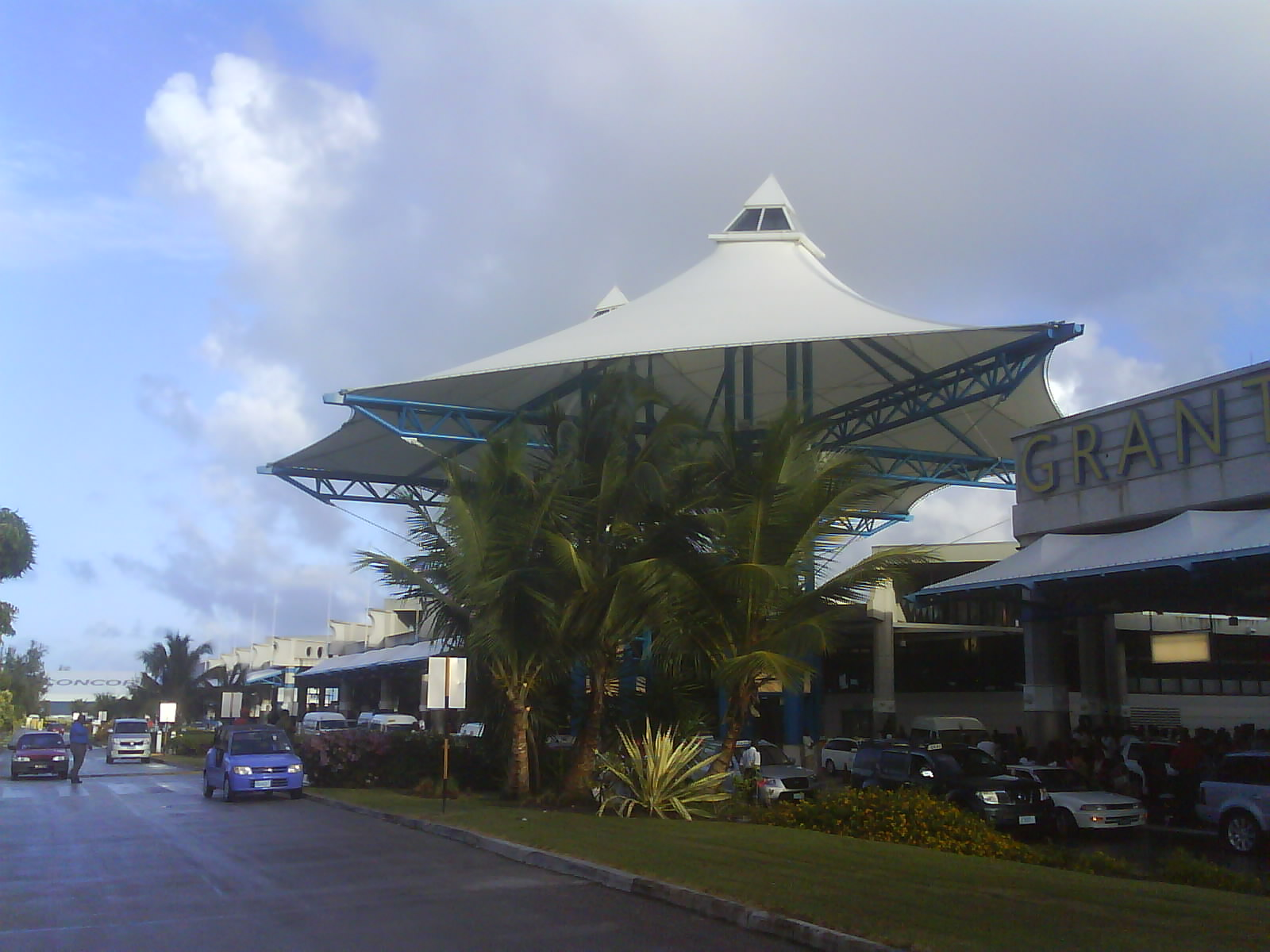 The City of Bridgetown's Grantley Adams International Airport at Seawell. (Located in the parish of Christ Church.) At far-left the Barbados Concorde Experience museum (Site) can be observed.